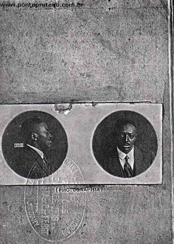 Portfolio Miguel do Carmo Professional, born April 10, 1885, was the first black player in Brazil and the world to work for a football club. At that time the prejudice was very large and only elite people had that privilege. Player in addition was also director and founder of Ponte Preta.